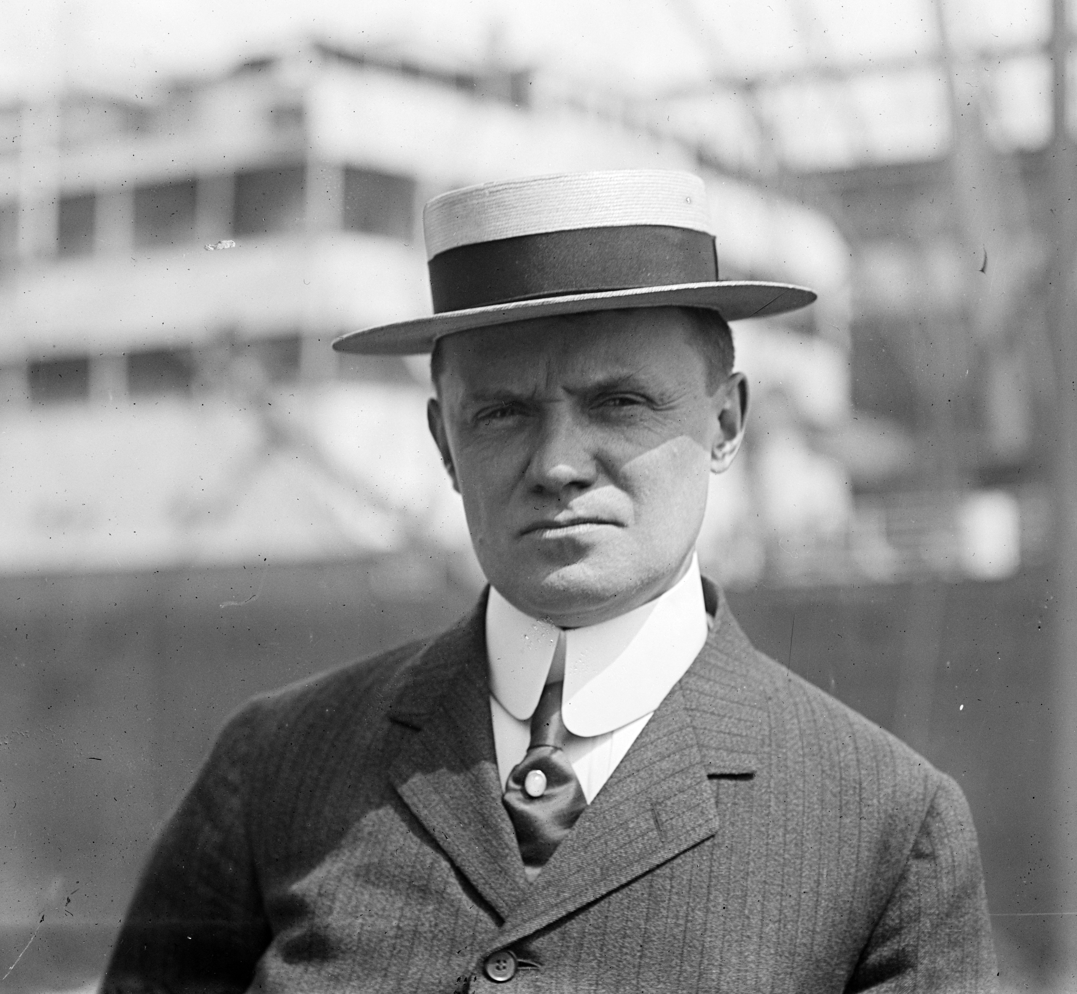 Charles S. Whitman (1868 – 1947), Governor of New York